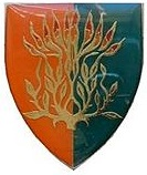 SADF 82 Brigade Flash